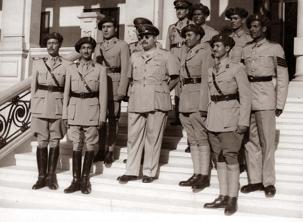 King Farouk I of Egypt (wearing a shirt with short sleeves) standing with the royal guards.